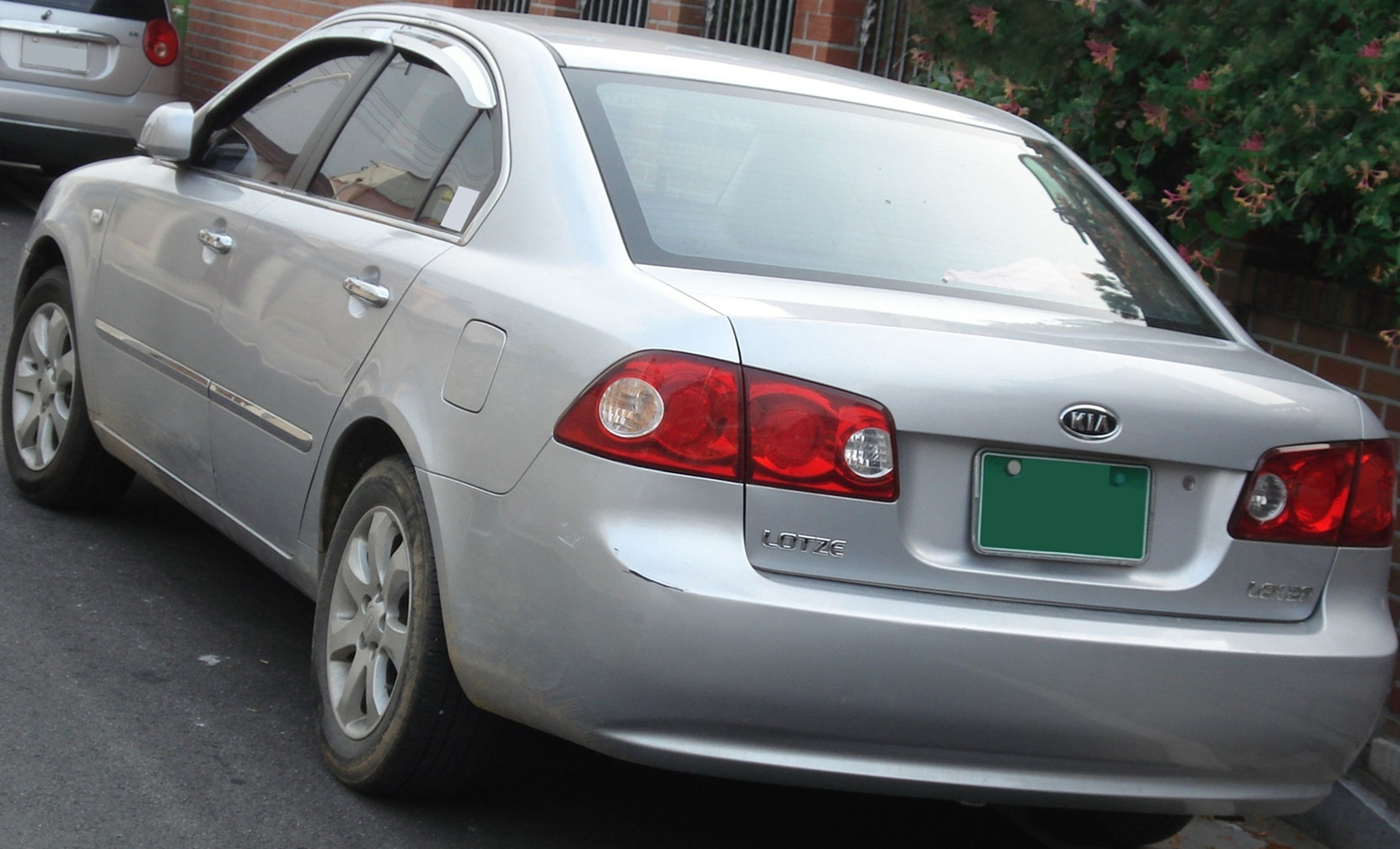 Kia Lotze